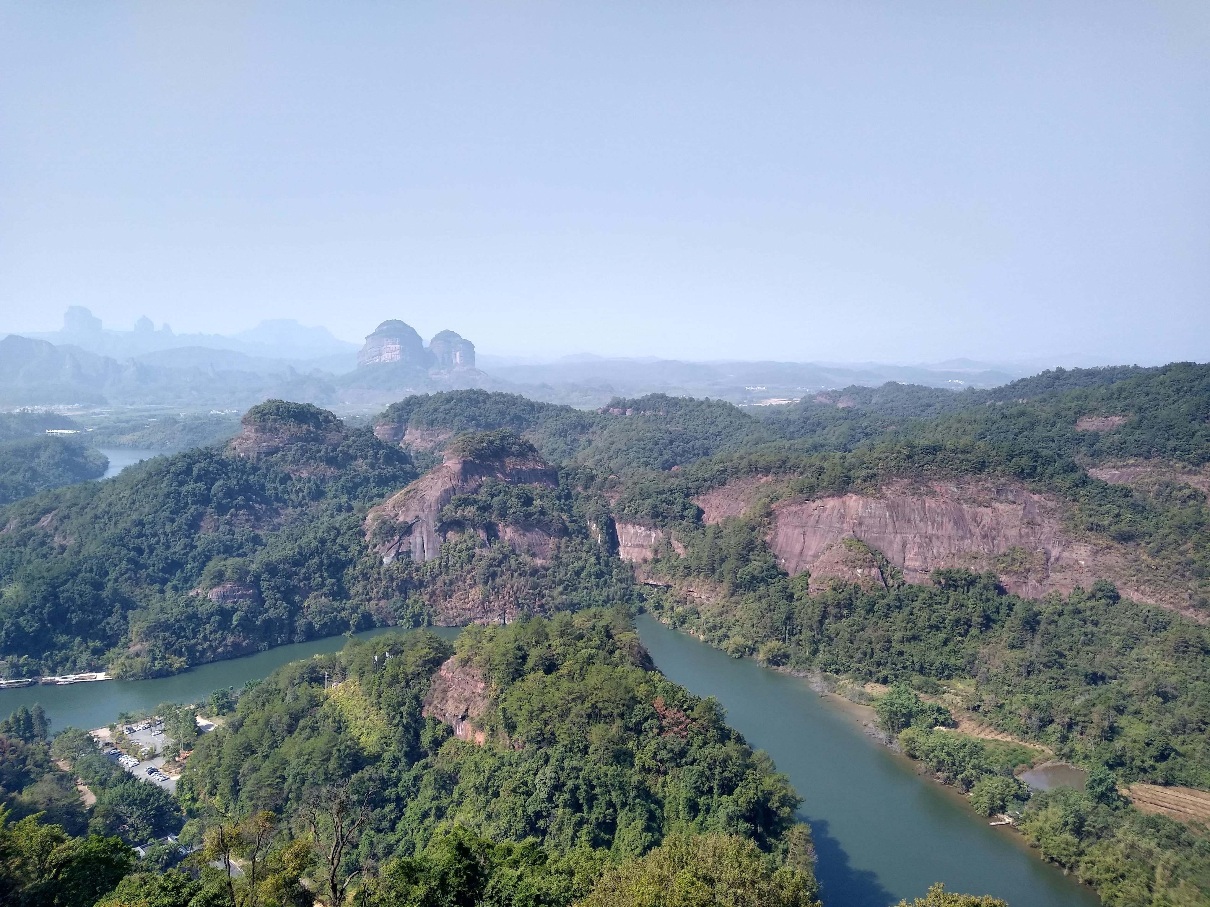 Scenery at Danxiashan (丹霞山), a geopark in Shaoguan, Guangdong, China.